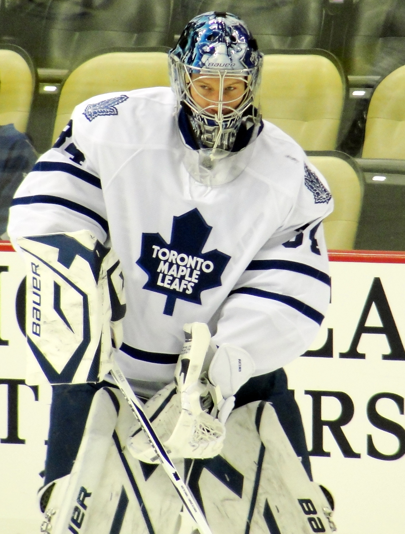 Toronto Maple Leafs goaltender warms up for a game against the Pittsburgh Penguins, March 7, 2012 at Consol Energy Center in Pittsburgh, PA.